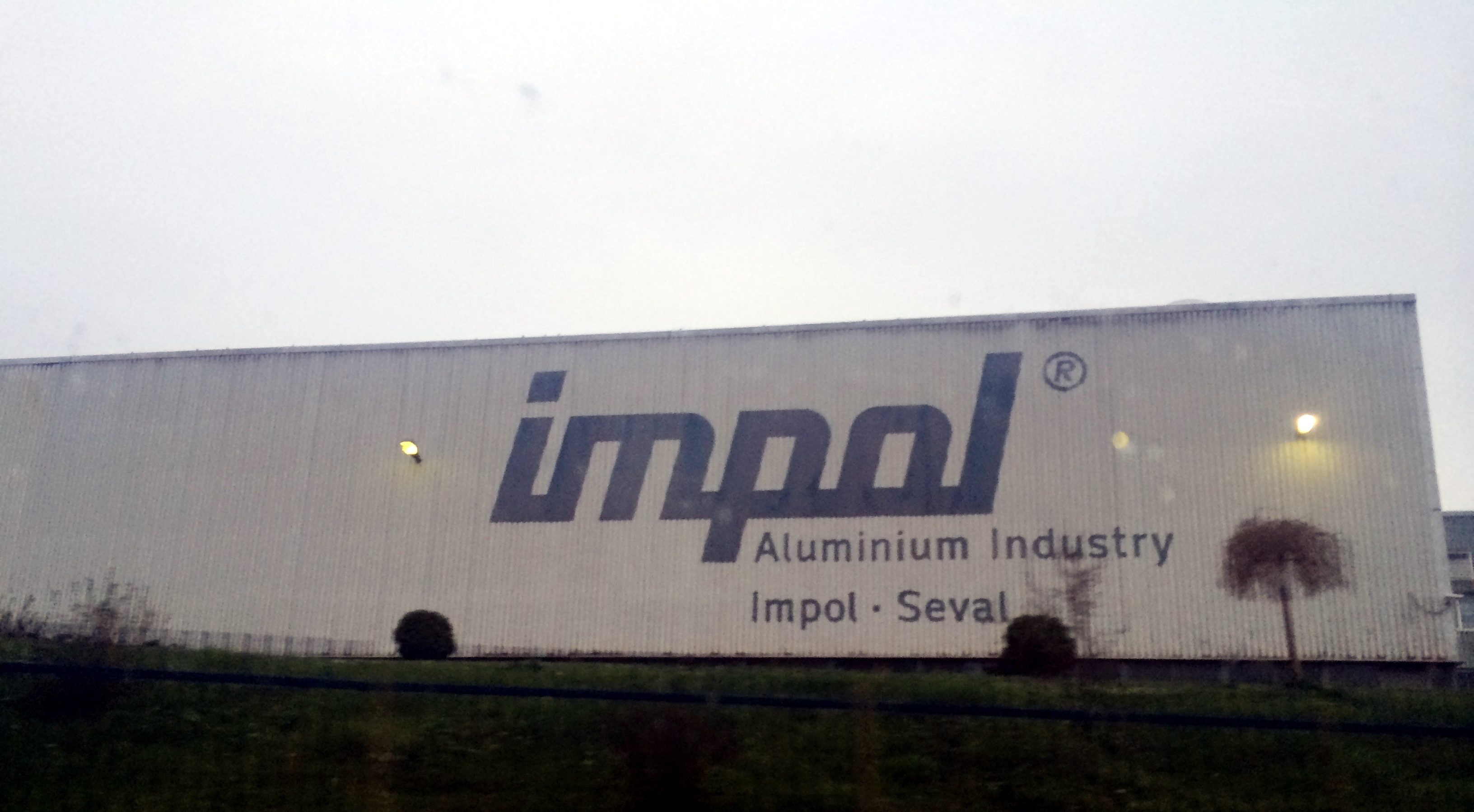 Image from the Impol Aluminium Mills in Sevojno, Zlatibor District, Serbia.